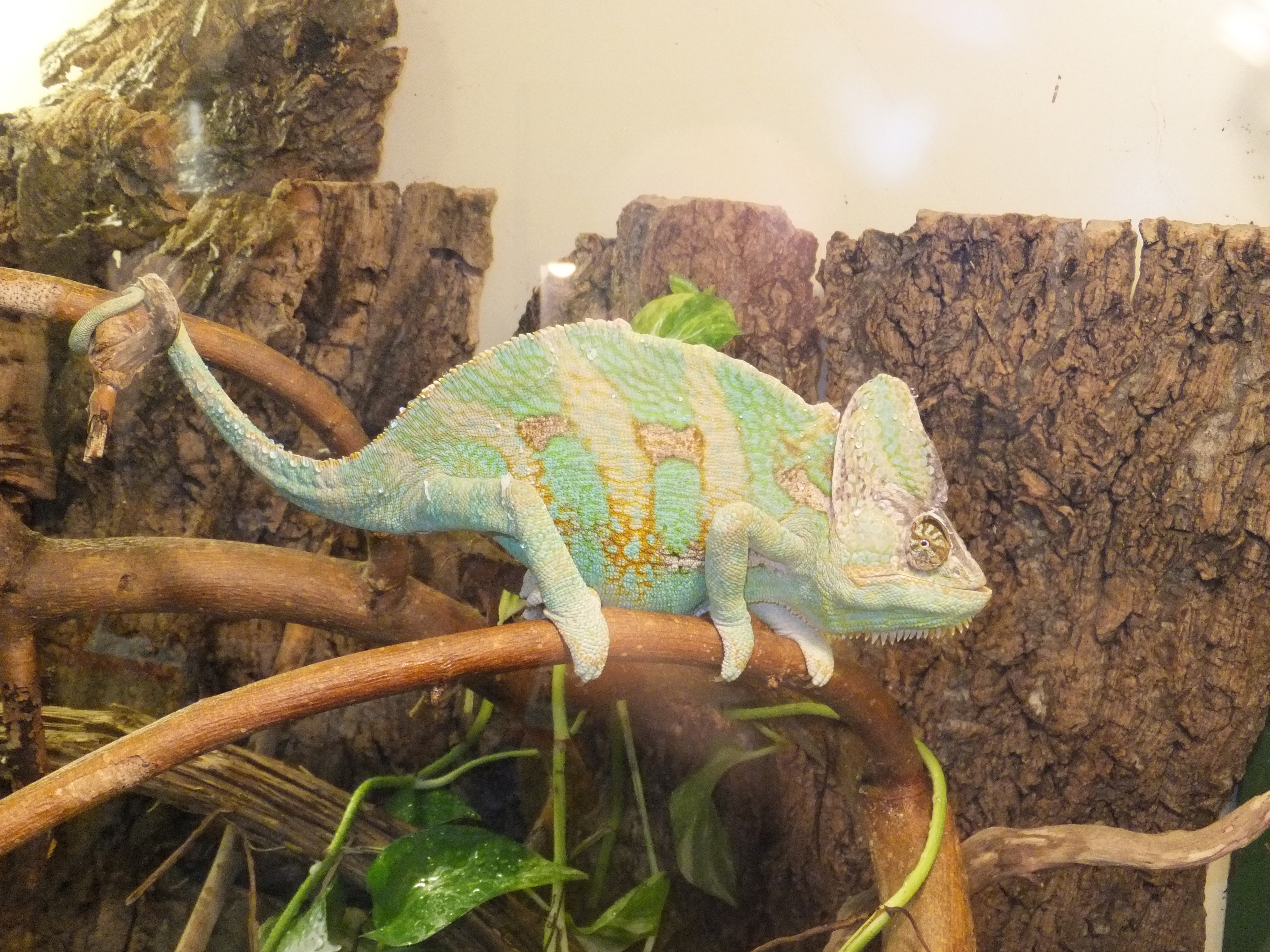 Chamaeleo calyptratus photographed in Esapolis